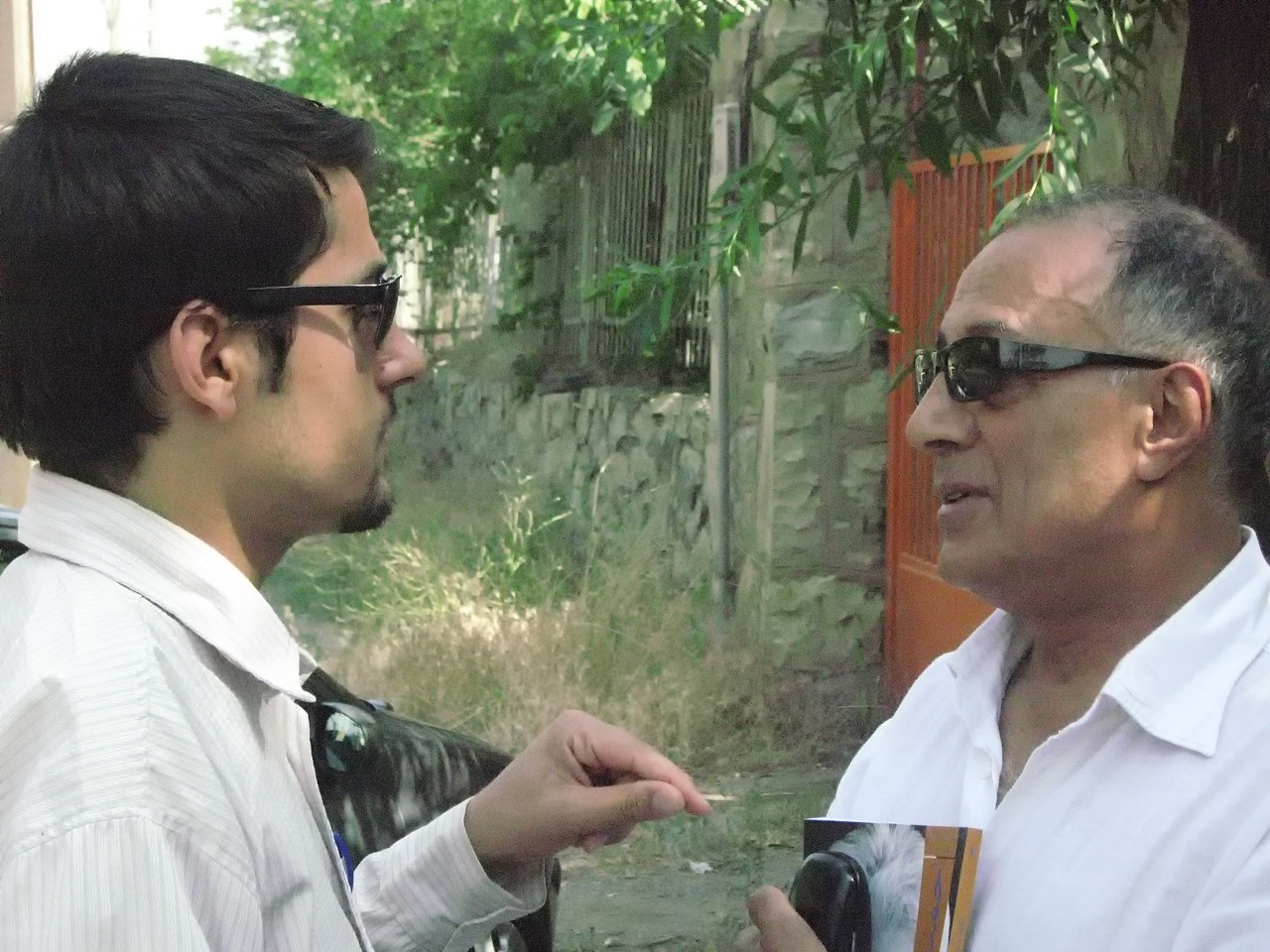 Abbas Kiarostami, Interview with Habib Bavi, 2013